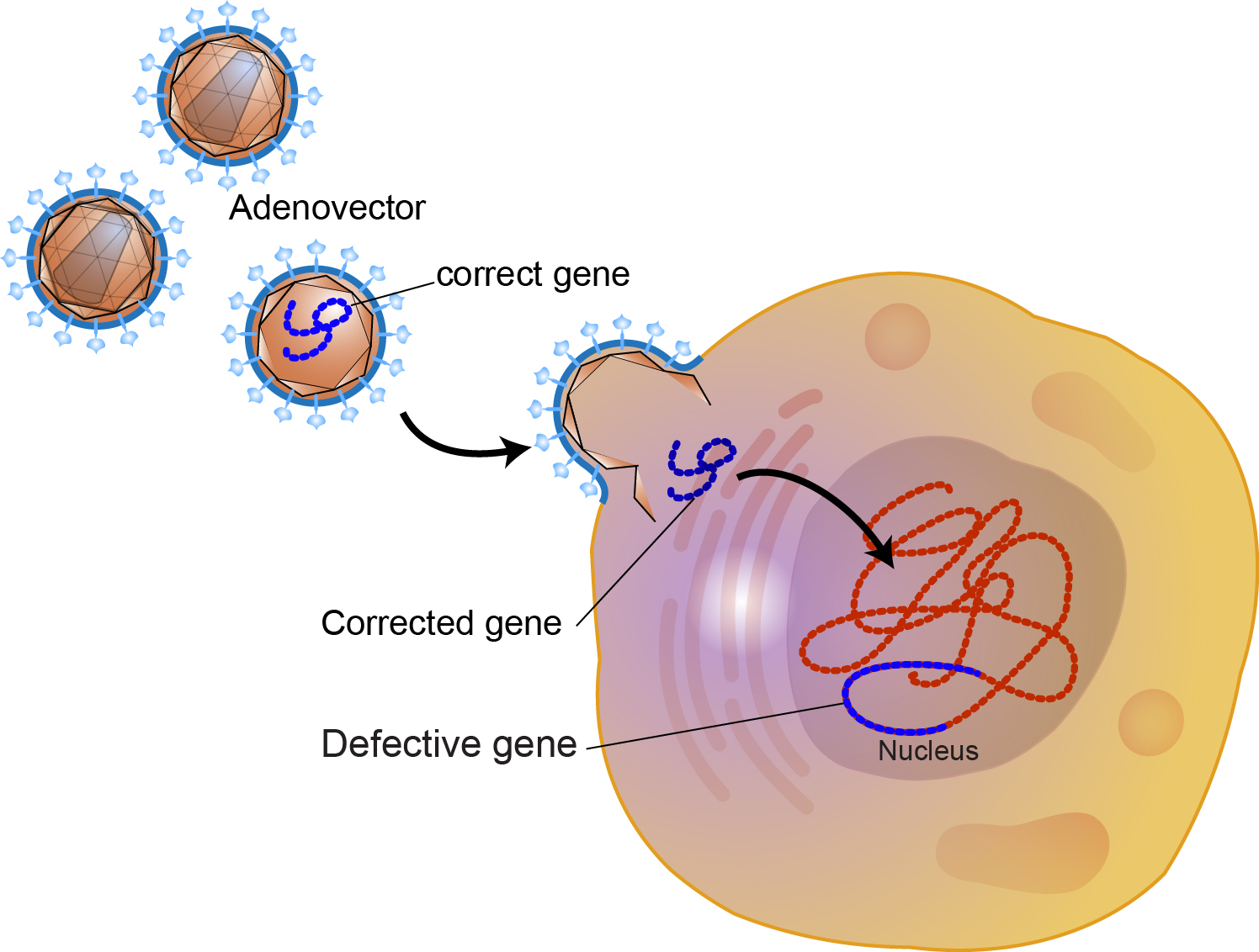 Gene therapy is an experimental technique for treating disease by altering the patient's genetic material. Most often, gene therapy works by introducing a healthy copy of a defective gene into the patient's cells.